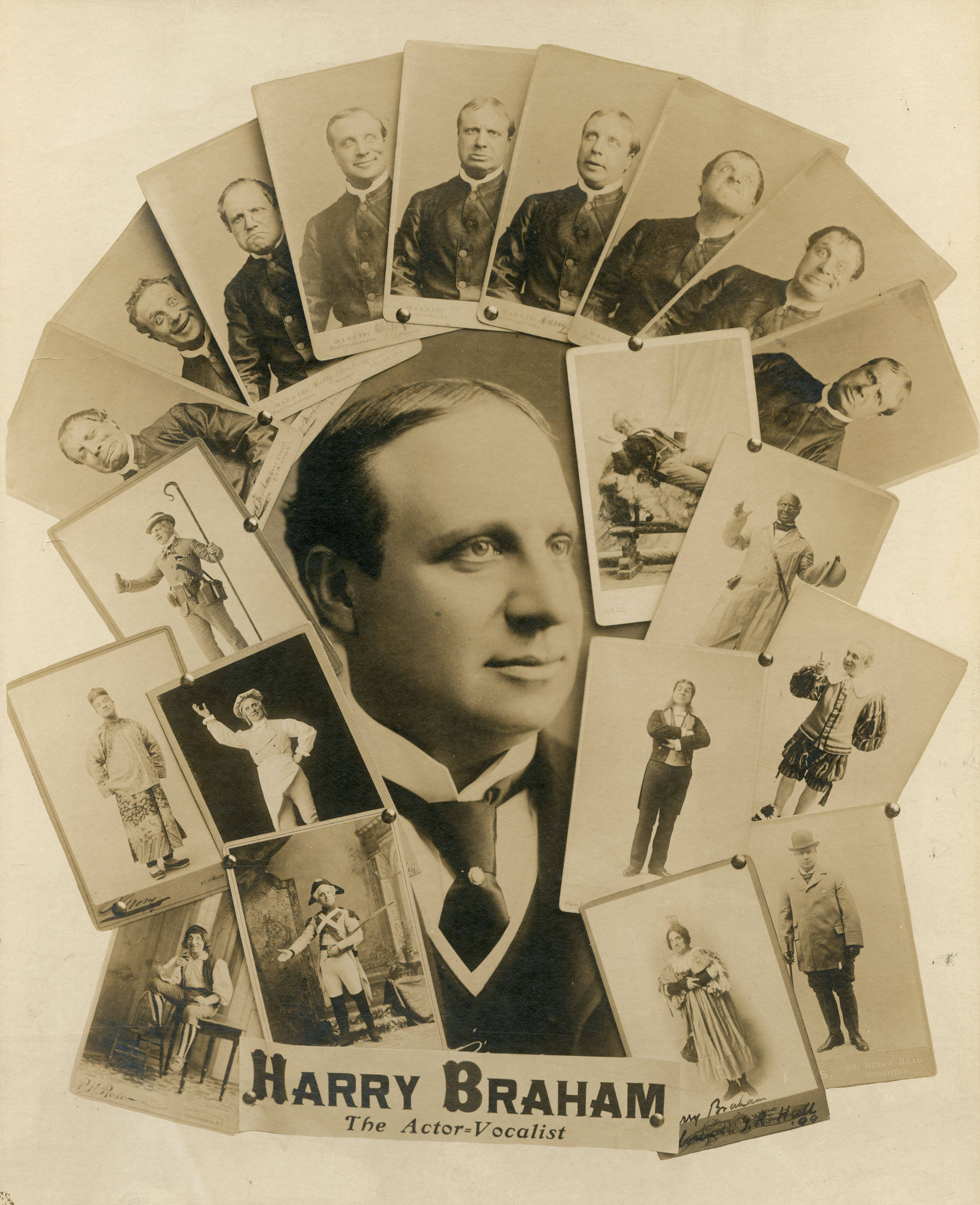 Harry Braham Subjects: actors